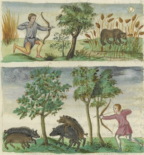 Oppian, Cynegetica. Copied by Angelus Vergetius. f. 5r: detail of illustration, hunting by day and night